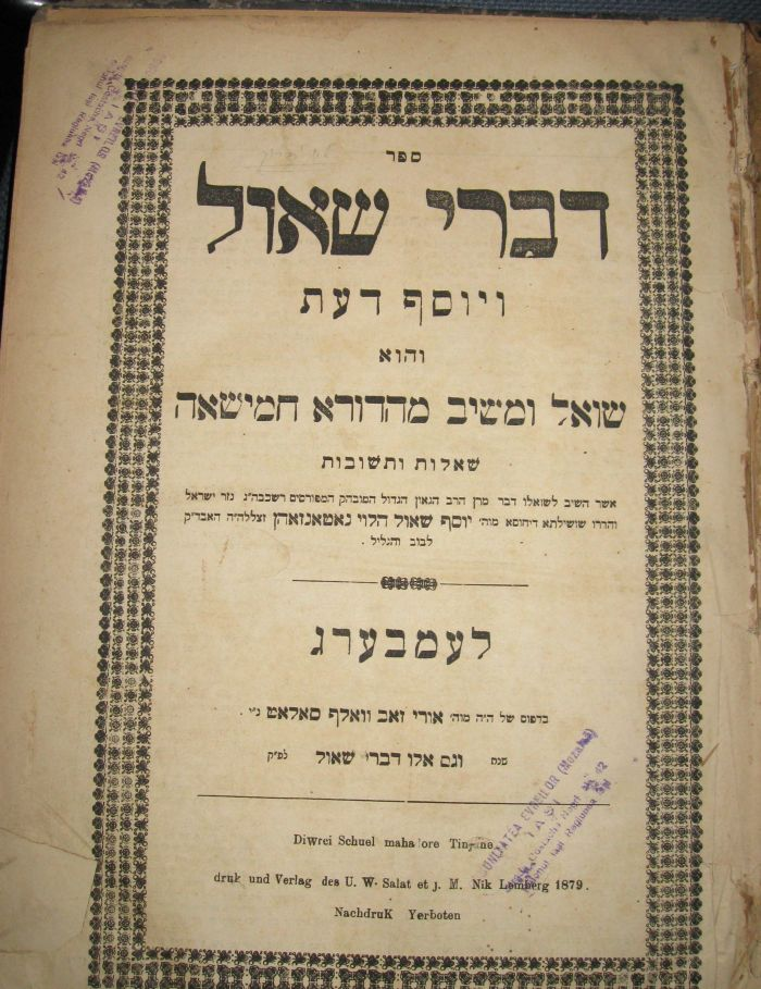 Divrei Shaul by Rabbi Natanzon This work or image is now in the public domain because its term of copyright has expired in Israel (details). According to Israel's copyright statute from 2007 (translation), a work is released to the public domain on 1 January of the 71st year after the author's death (paragraph 38 of the 2007 statute) with the following exceptions: A photograph taken on 24 May 2008 or earlier — the old British Mandate act applies, i.e. on 1 January of the 51st year after the creation of the photograph (paragraph 78(i) of the 2007 statute, and paragraph 21 of the old British Mandate act). If the copyrights are owned by the State, not acquired from a private person, and there is no special agreement between the State and the author — on 1 January of the 51st year after the creation of the work (paragraphs 36 and 42 in the 2007 statute). See also category: PD Israel & British Mandate.